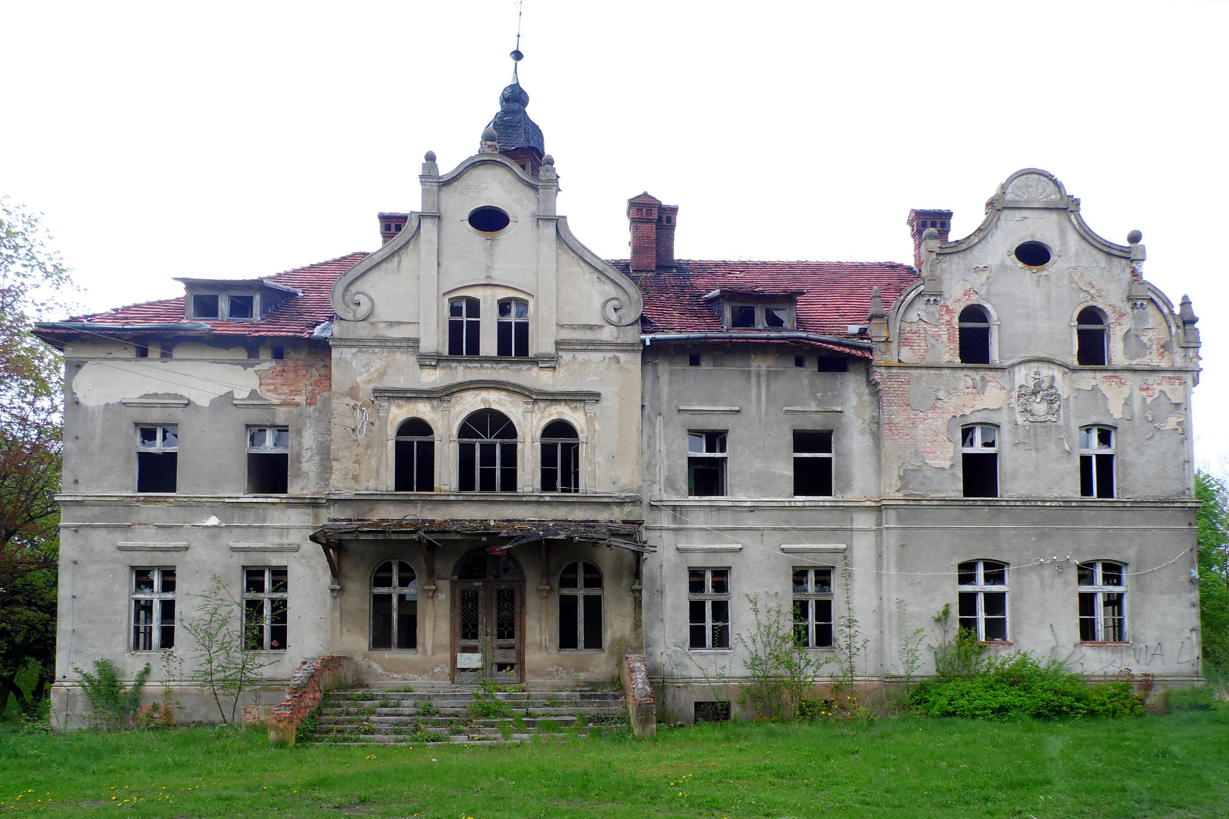 Palace of 1901 (p. pd.) Jabłonna / gm. Rydzyna / area. Leszno / province. Greater Poland / Poland